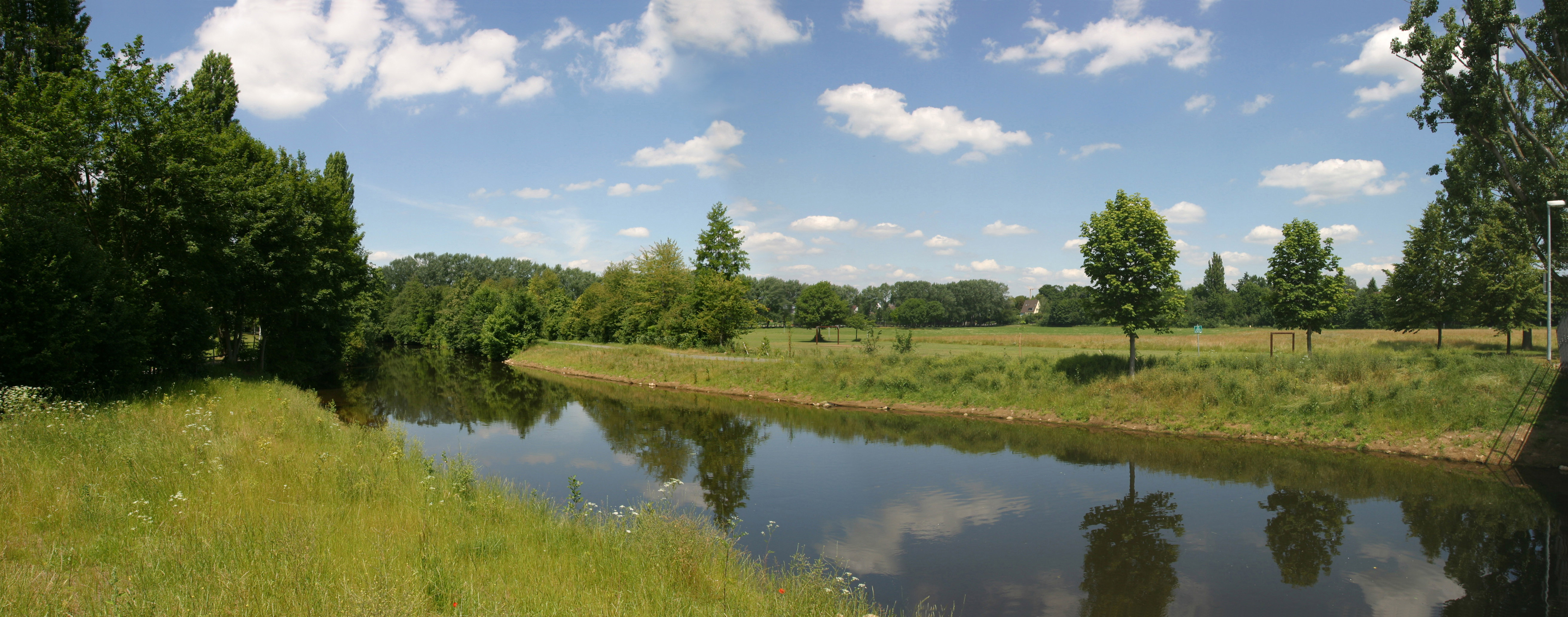 Picture from Fürth (Bayern) Germany